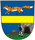 Municipal coat of arms of Vrbno pod Pradědem town, Bruntál District, Czech Republic.